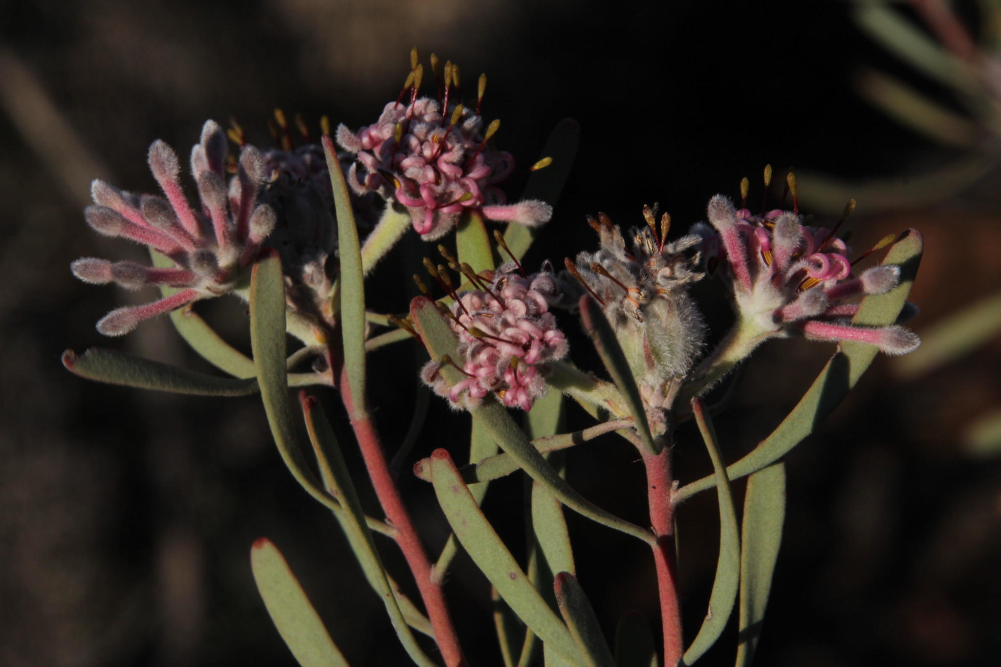 Two stems with flower heads of the Witteberg vexator, Vexatorella obtusata subsp. albomontana, photographed by Tony Rebelo on 22 October 2015 at tjhe Perdekloof Pass, 5 km North of the N1 road